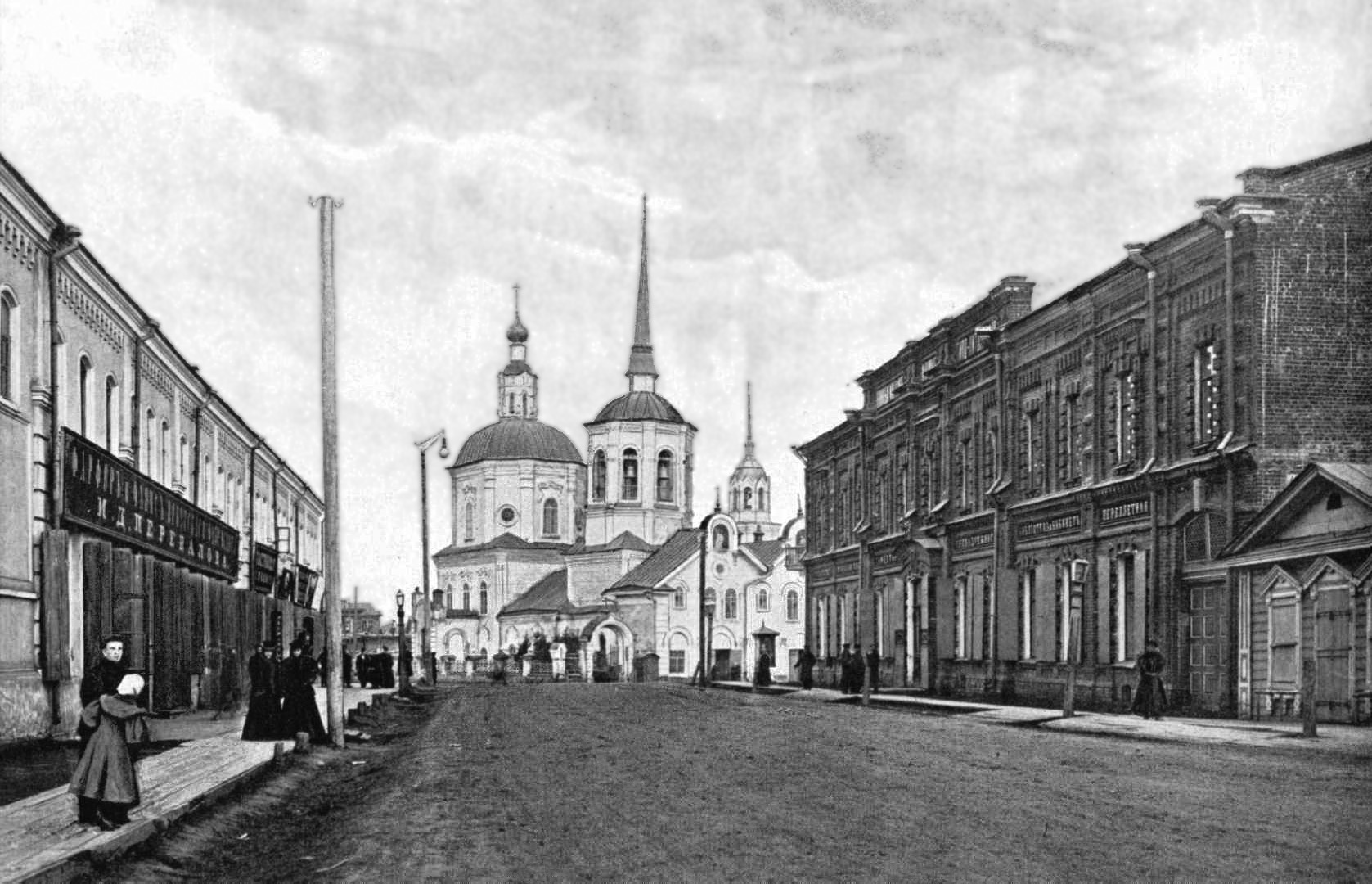 Pre-1917 Tomsk Flickr data on 2011-08-13 Tags: Old picture, Tomsk, Public Domain License: CC BY-SA 2.0 User: paukrus Ruslan